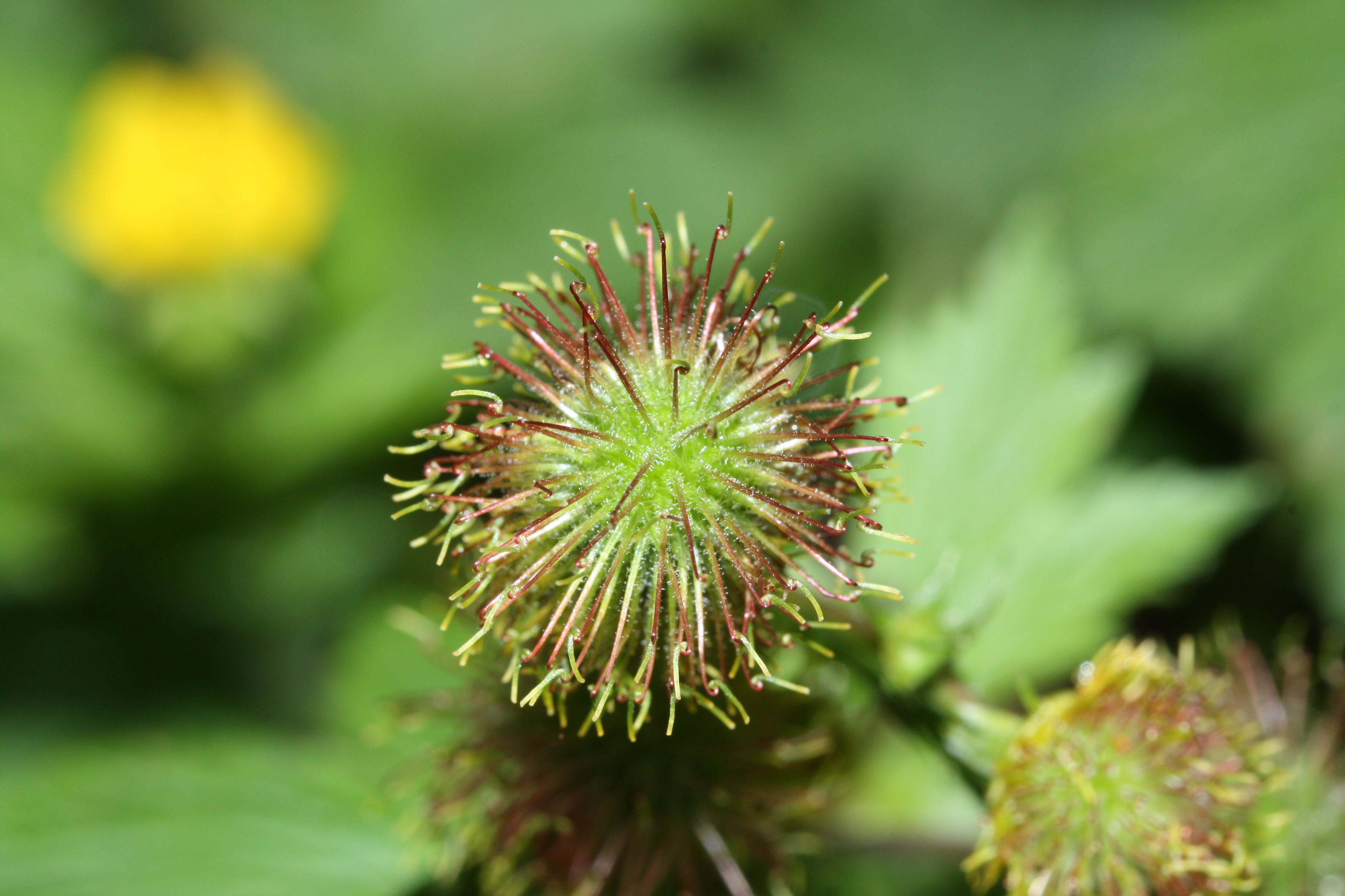 Largeleaf Avens, Bigleaf Avens